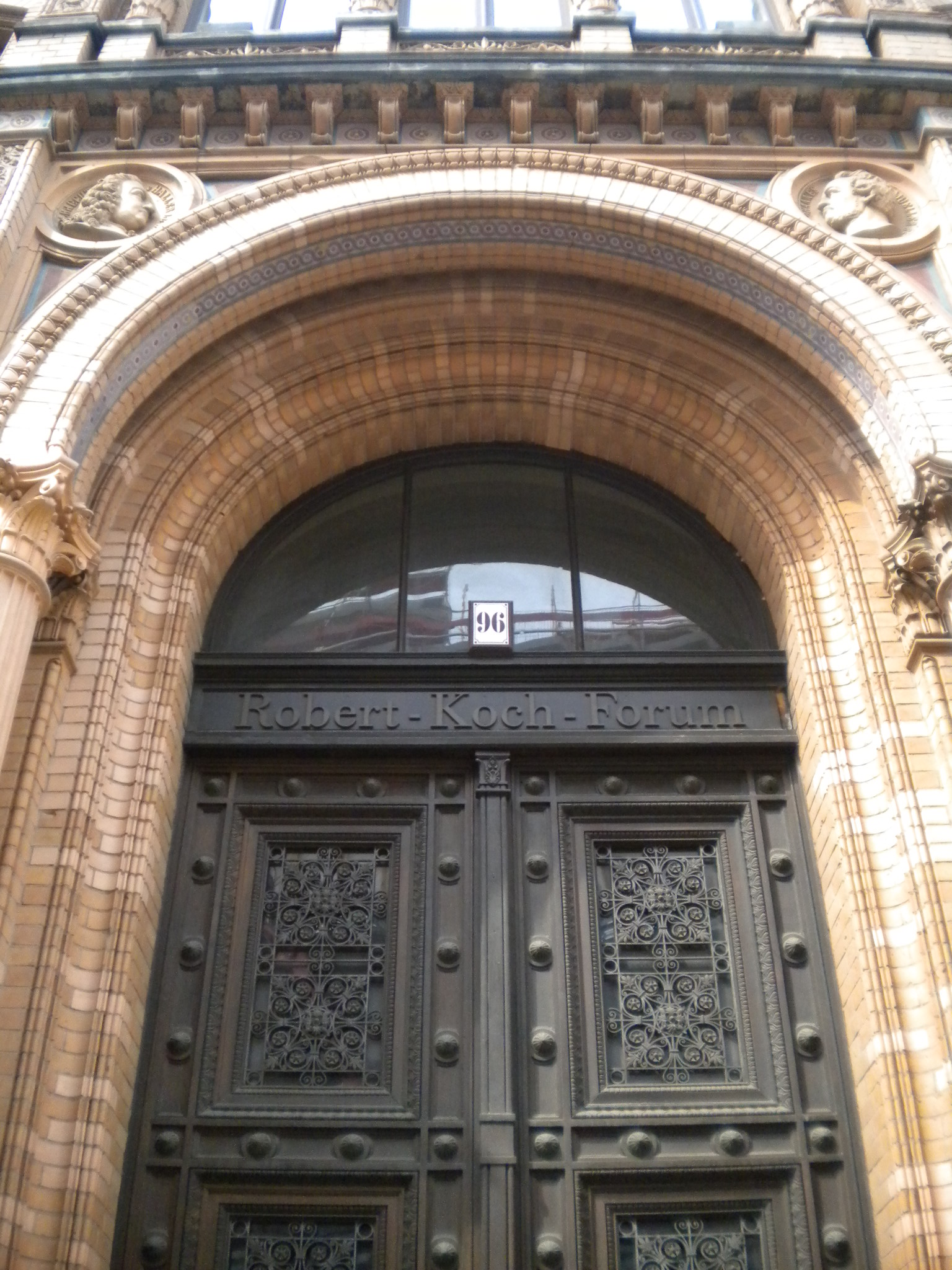 Robert Koch Forum, Berlin.